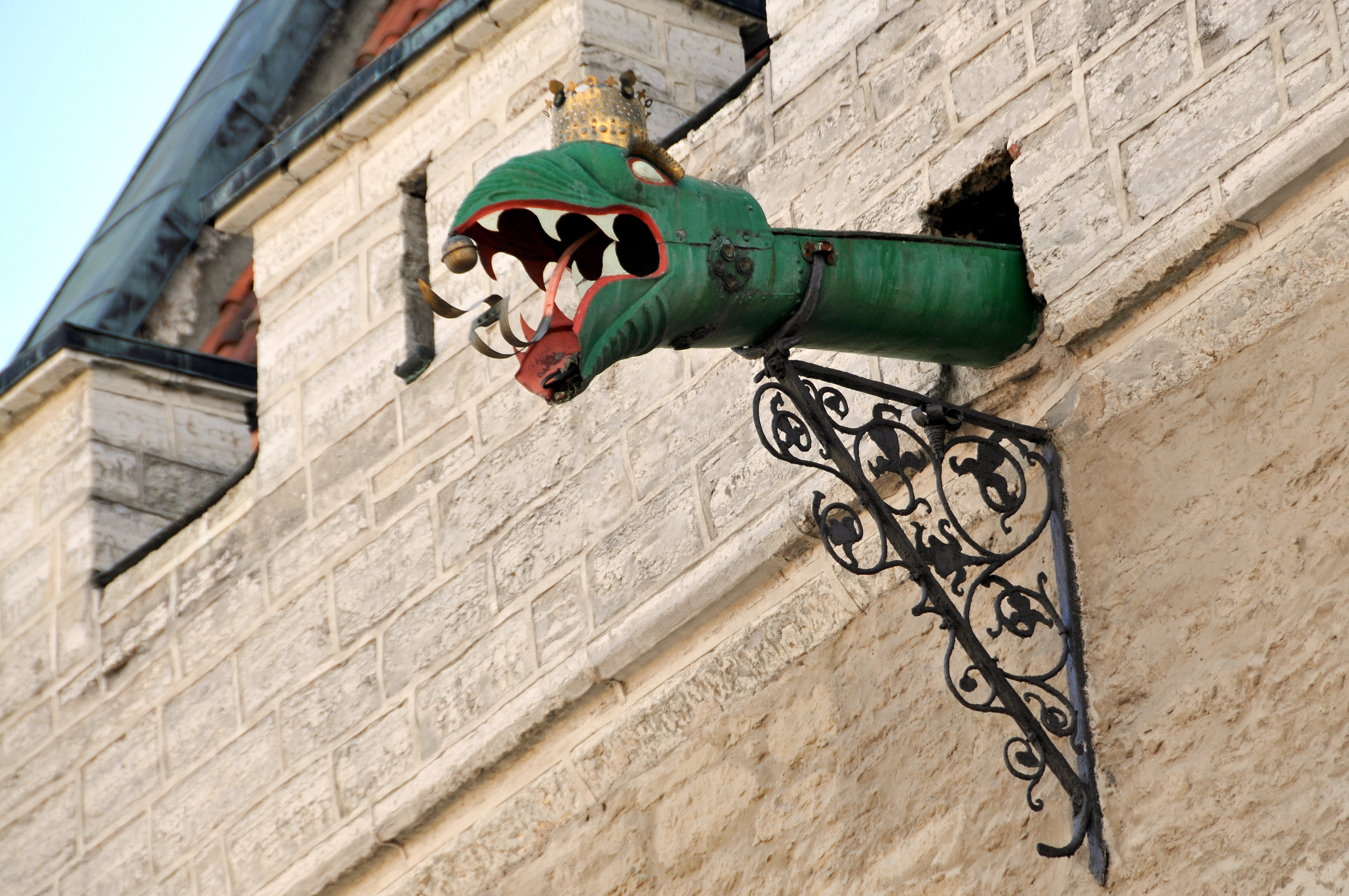 Downspout on the Town Hall